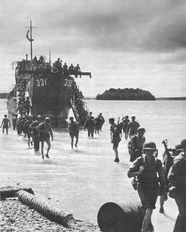 SOLDIERS OF THE 151st INFANTRY debarking from an LCI, New Georgia, 22 July 1943.